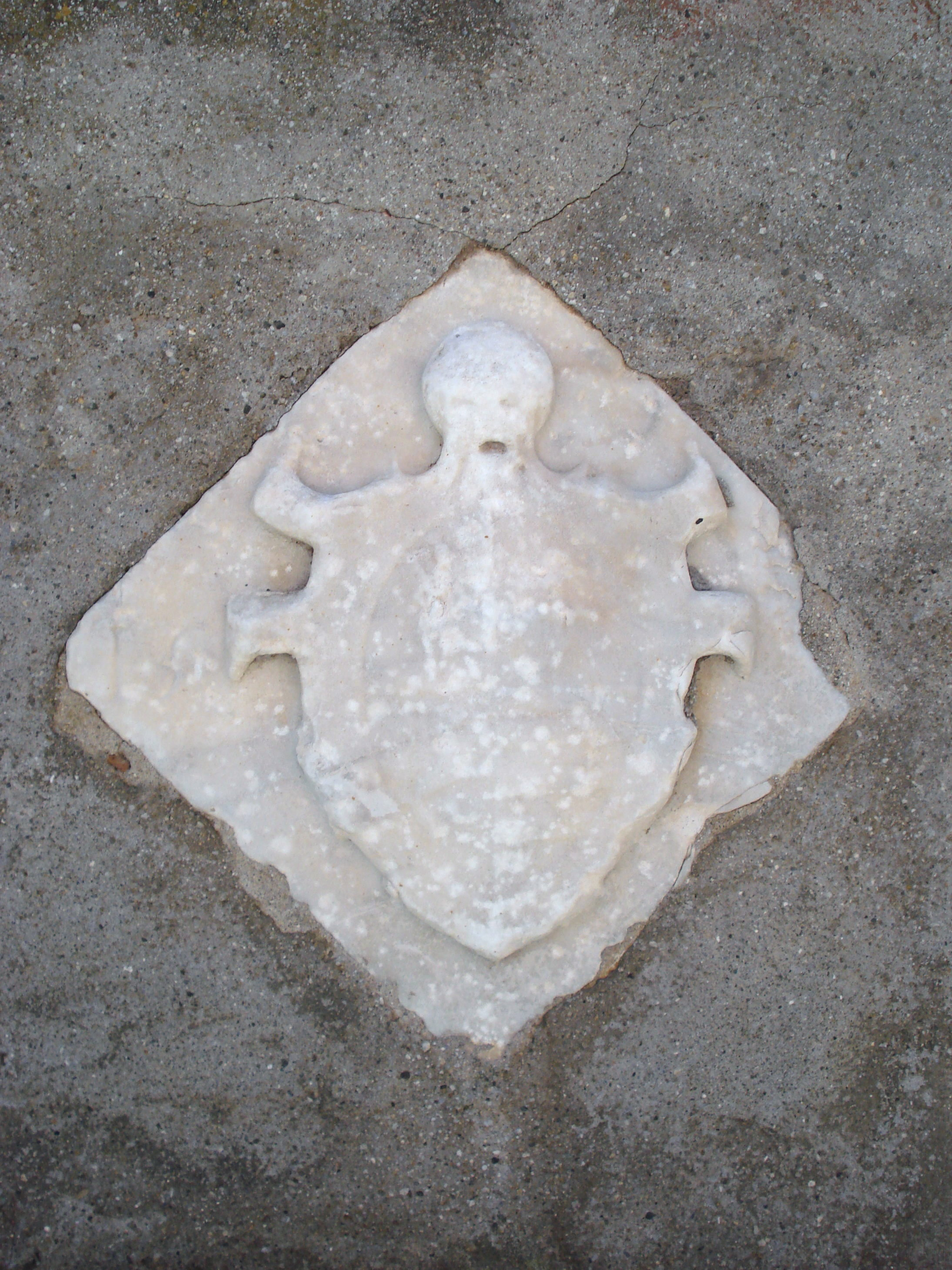 Coat of arms of Valdina Family (XVI century), located in Mezzasalma street.